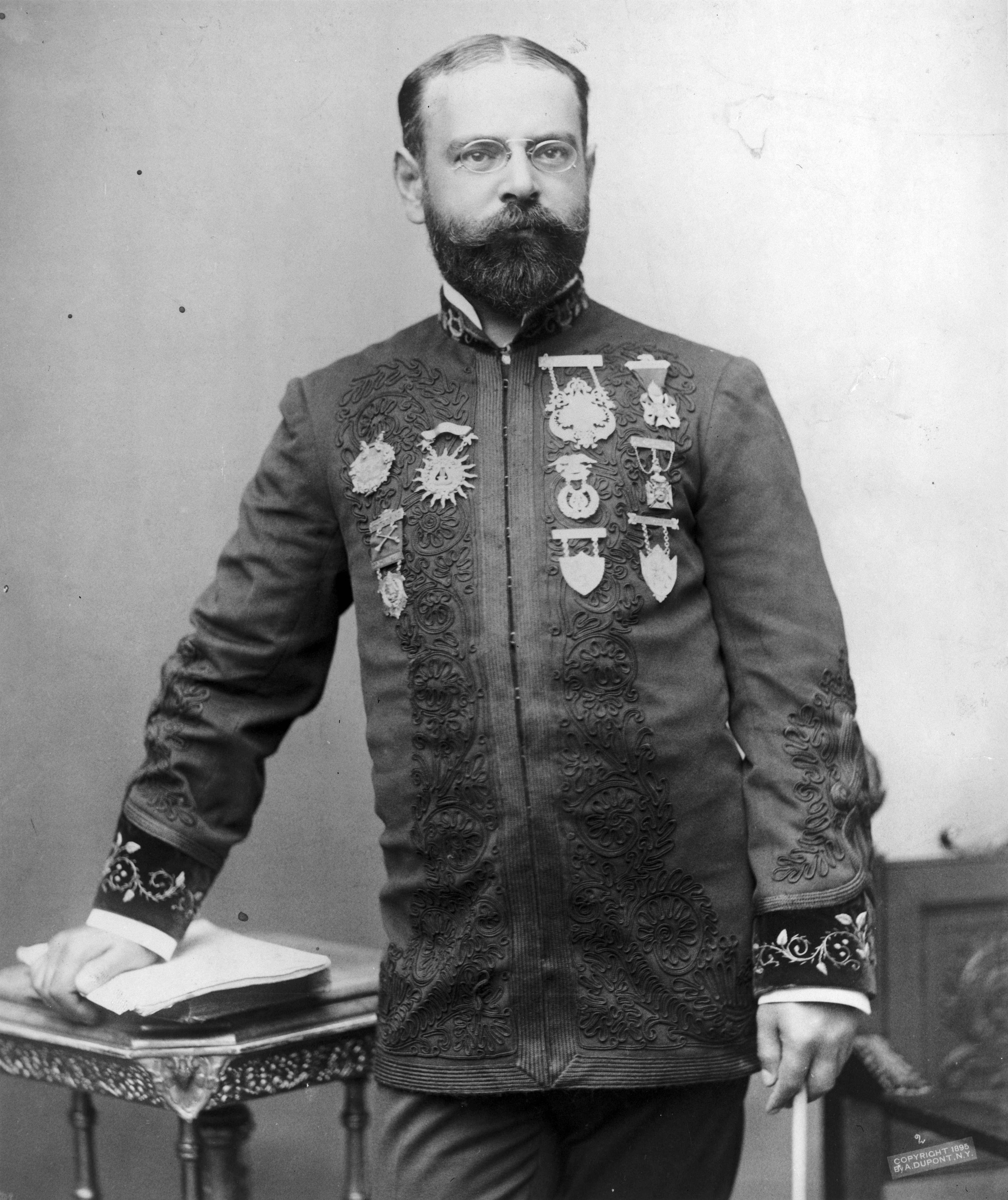 John Philip Sousa, three-quarter length portrait, standing, facing front